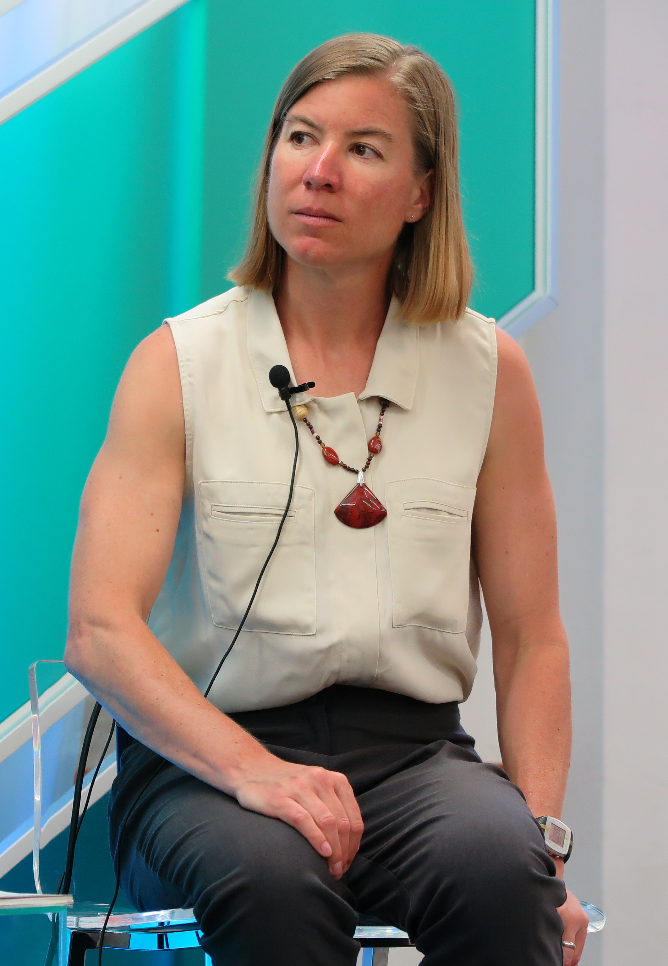 Christie Aschwanden at Spotlight Health Aspen Ideas Festival 2015